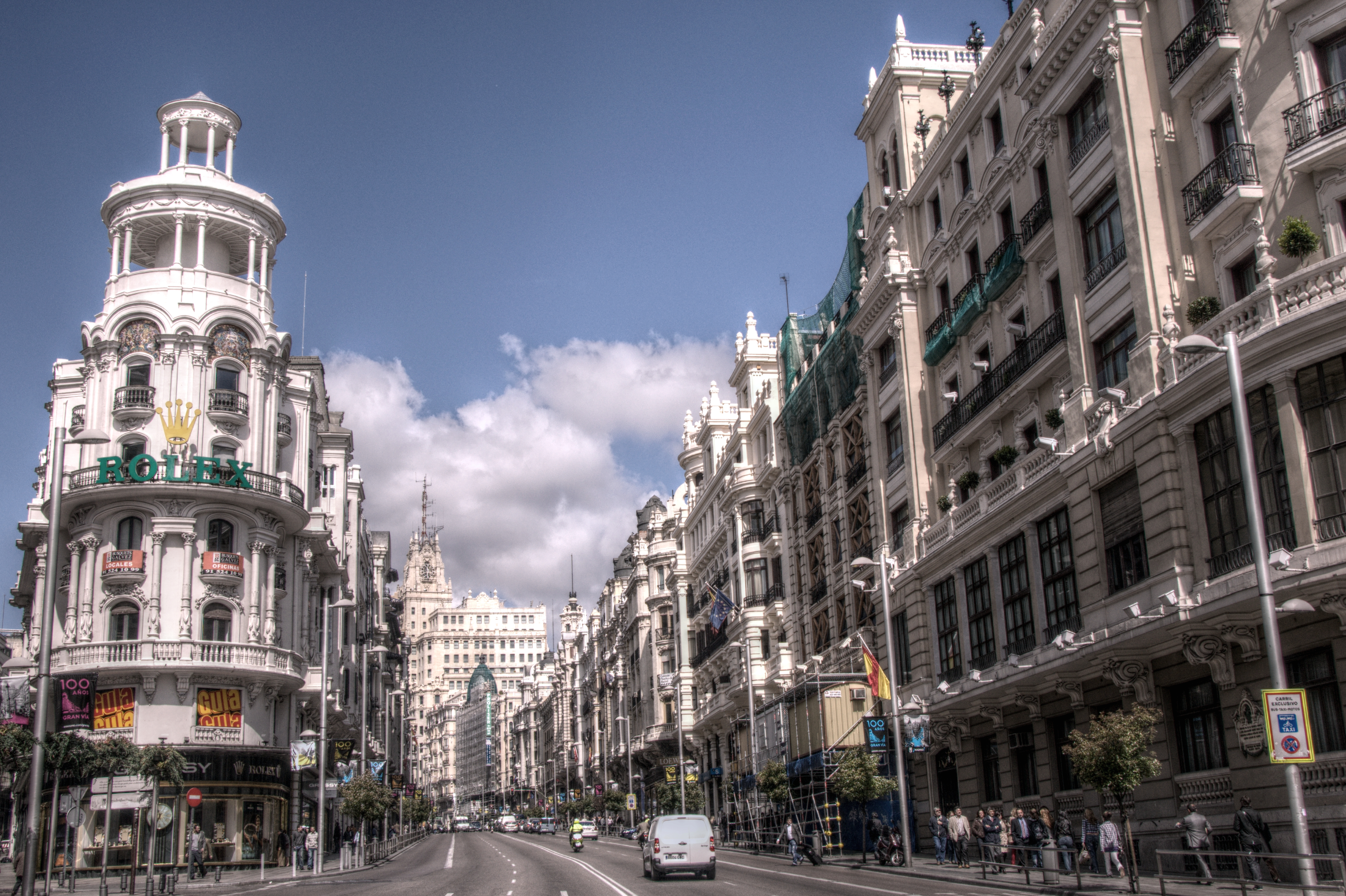 A view of Gran Vía, a downtown avenue in Madrid (Spain).